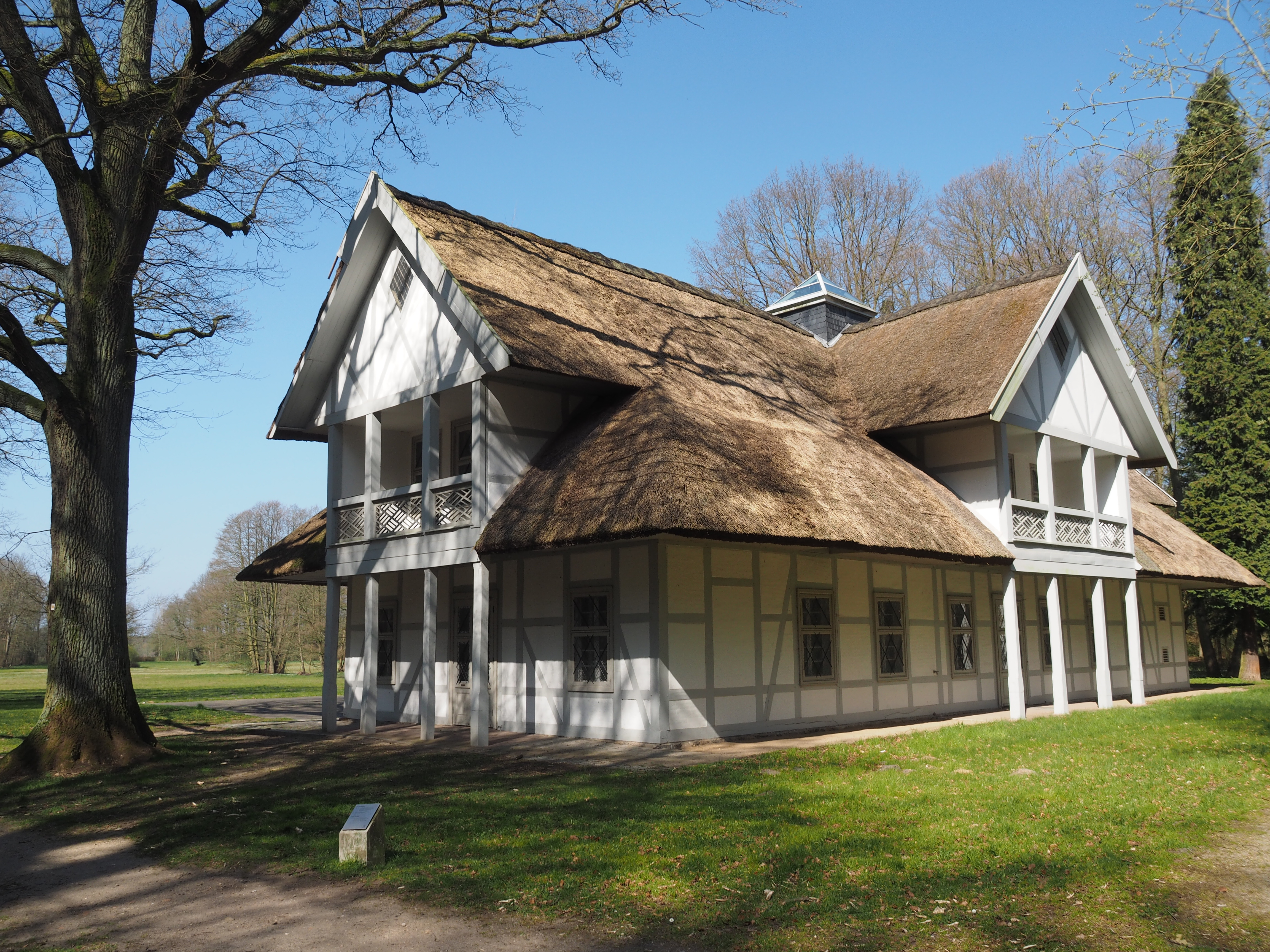 Swiss Cottage in the park of Ludwigslust castle, Germany